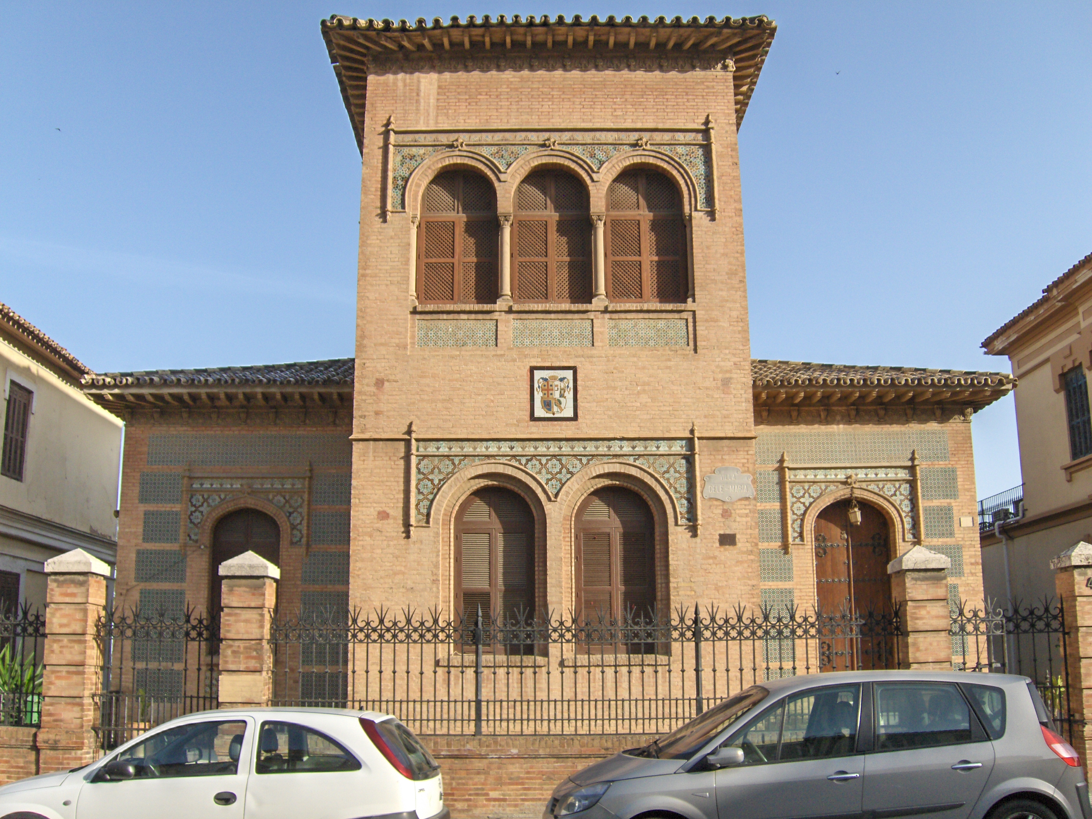 Malaga